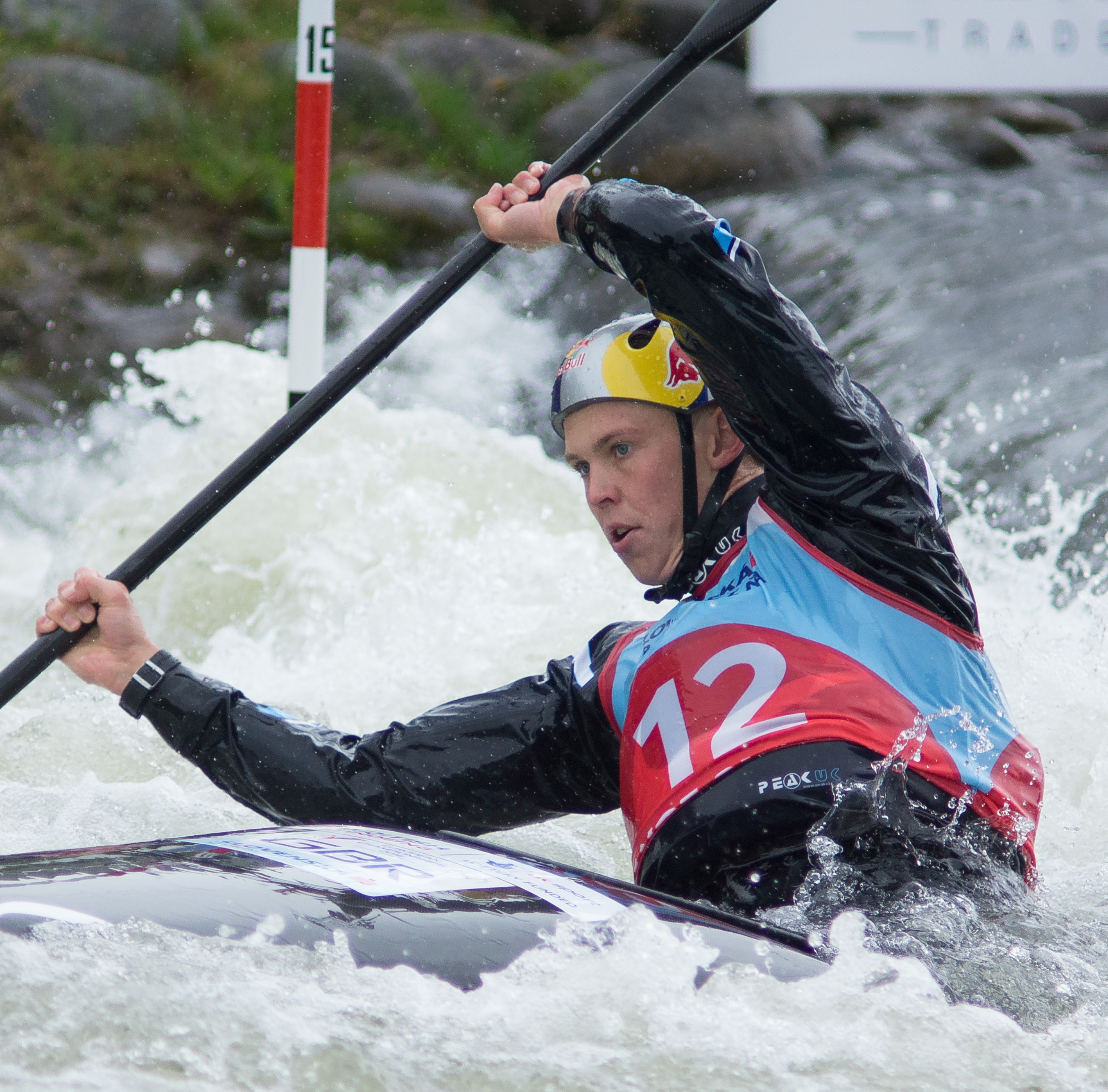 Joseph Clarke competing at the 2016 European Canoe Slalom Championships in Liptovský Mikuláš, Slovakia.